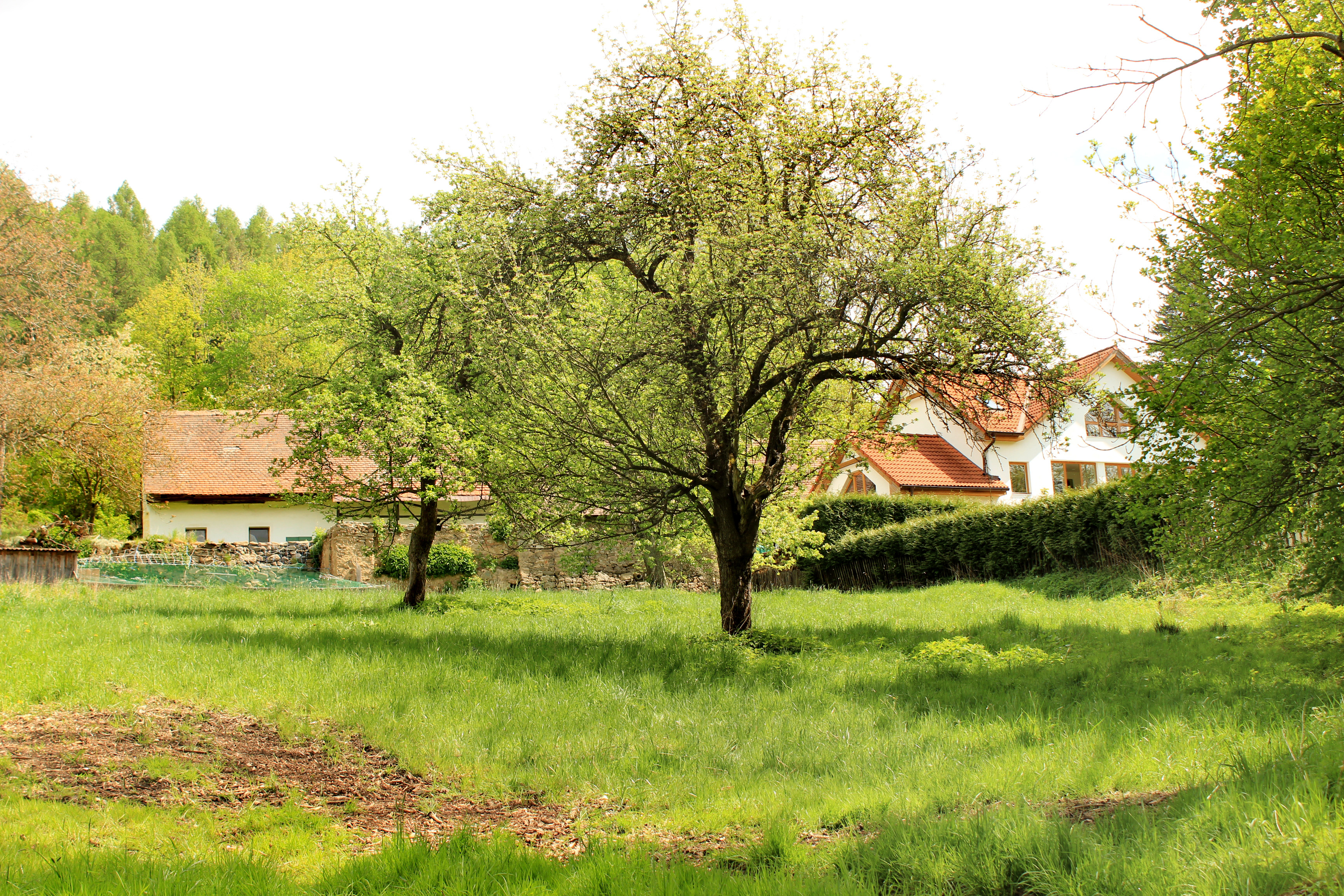 Kozinec, part of Sedlec-Prčice, Czech Republic.